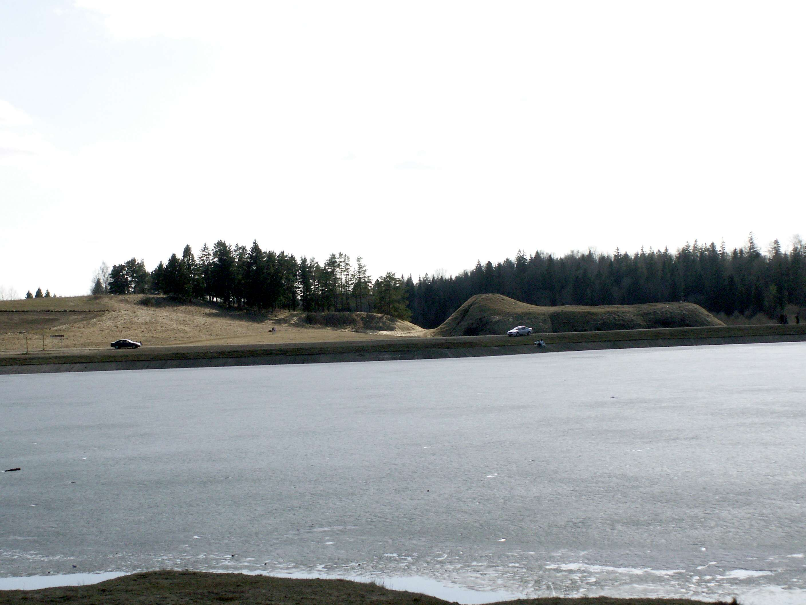 Bubiai hillfort, Šiauliai district, Lithuania